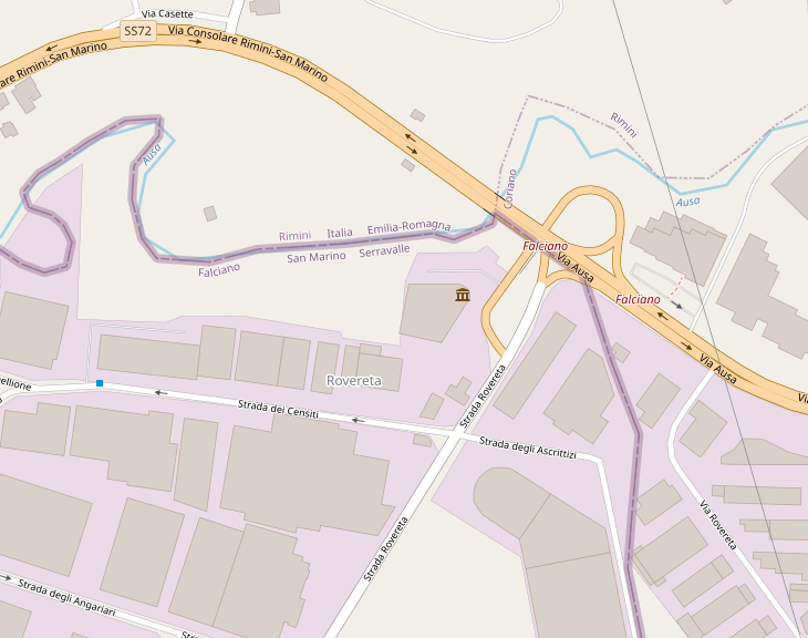 Map of Rovereta (San Marino)